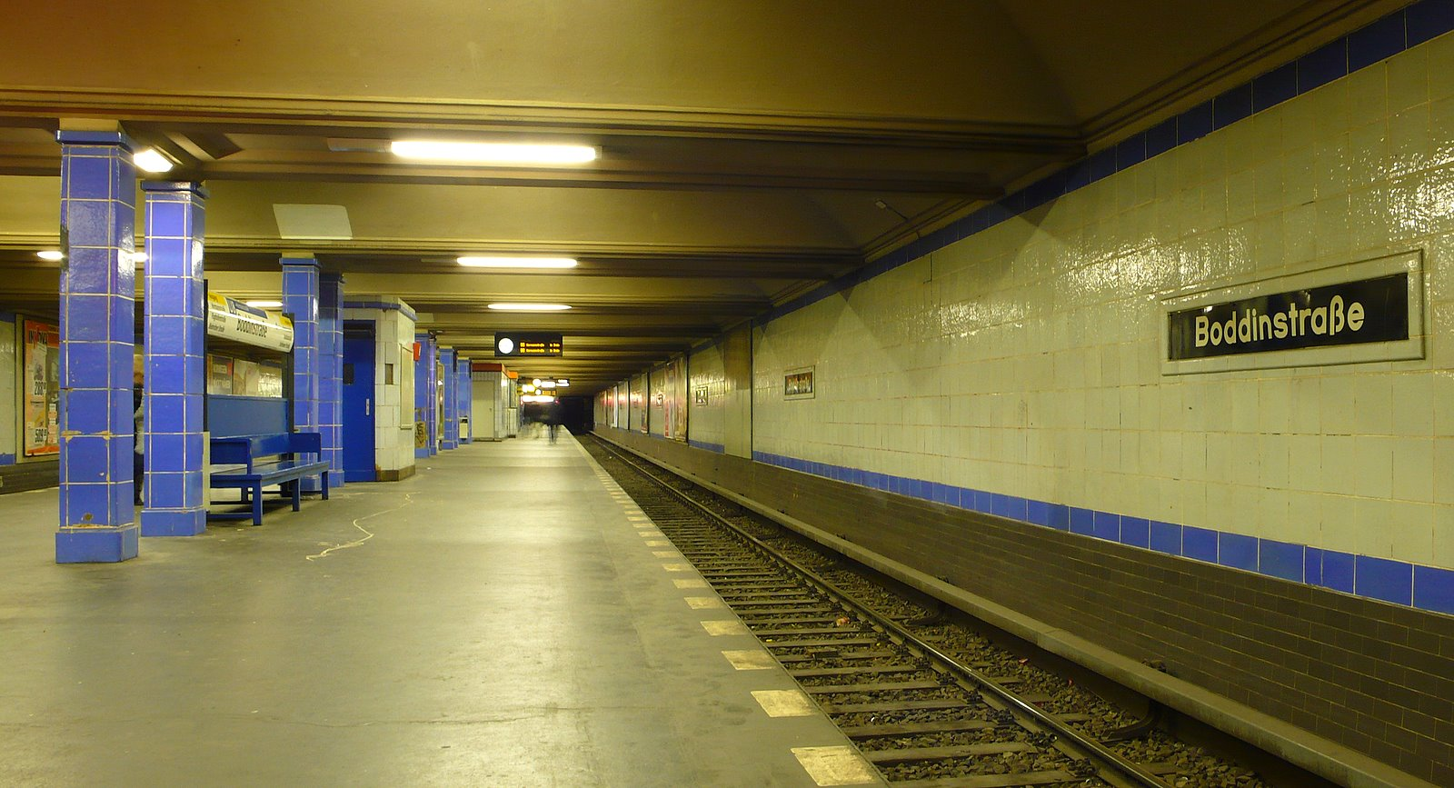 Subway Berlin Boddinstr